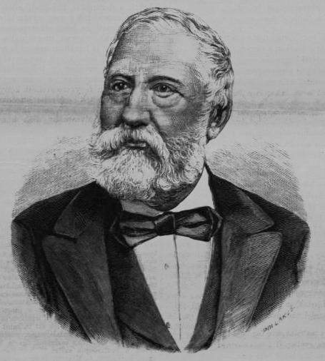 Portrait of János Cziráky